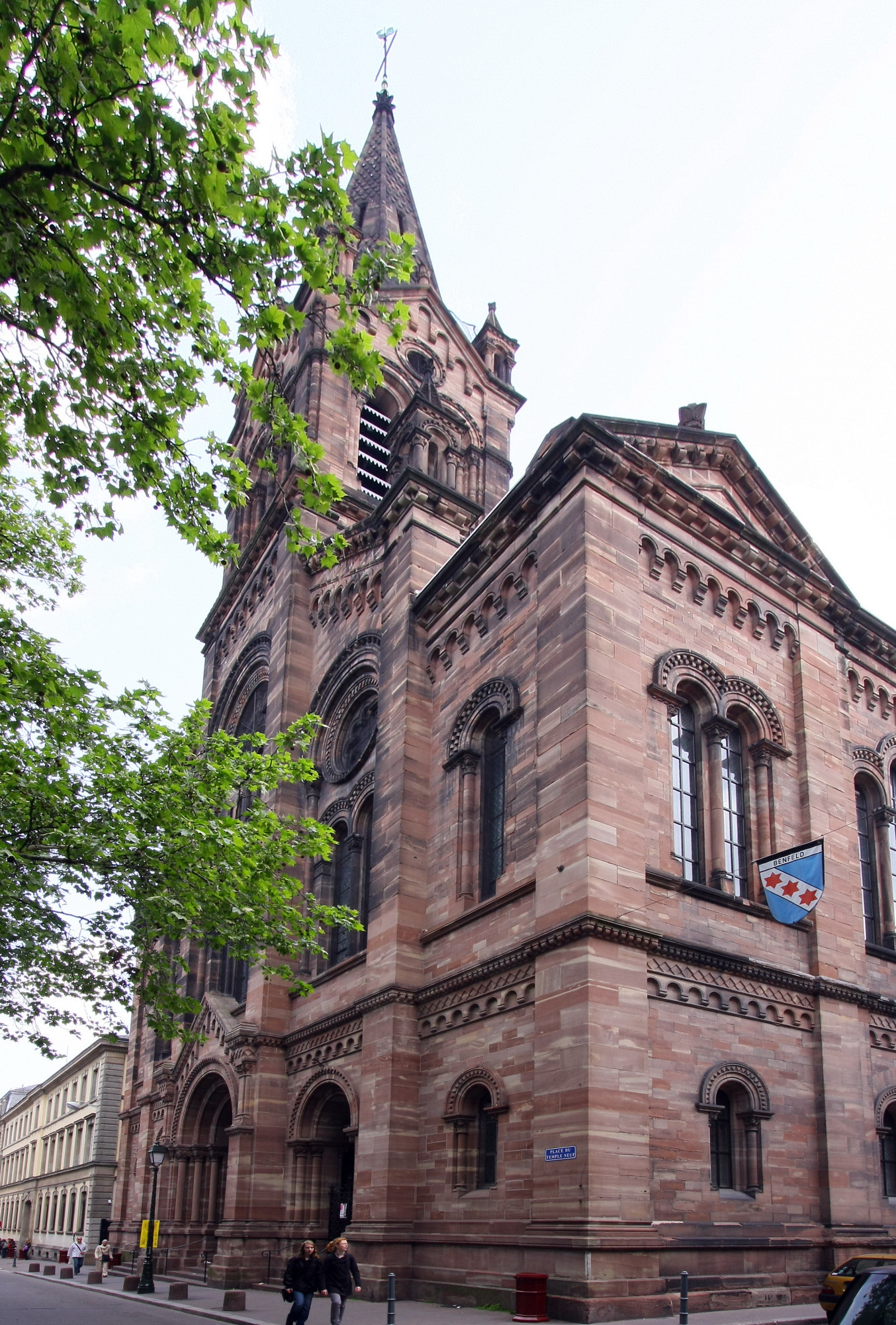 040 Strasbourg